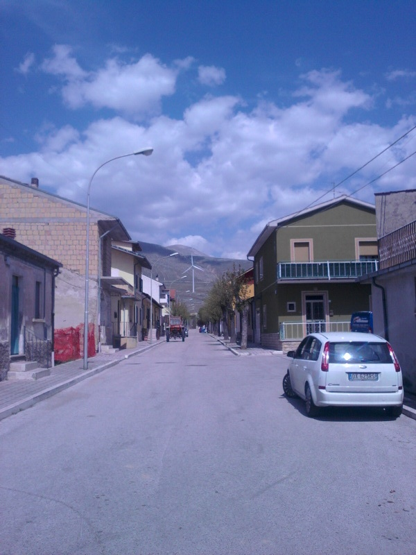 The Via Vittorio Veneto in Collarmele